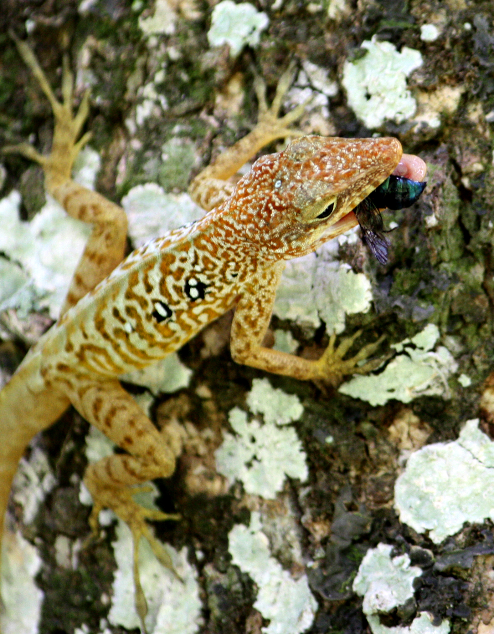 Male Dominican Anole (Anolis oculatus) feeding on a fly. North Caribbean ecotype (A. o. cabritensis). Near the Coulibistrie River, Dominica.